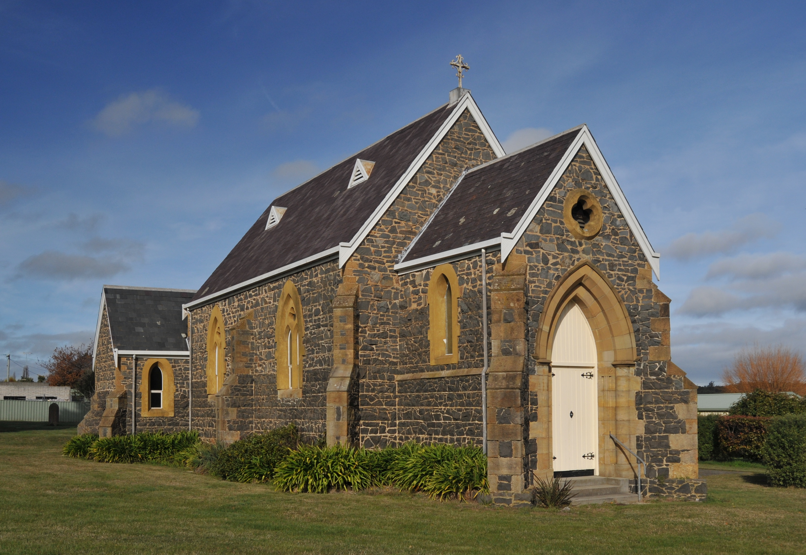 Anglican Church of the Good Shepherd, main street, Hadspen, Tasmania